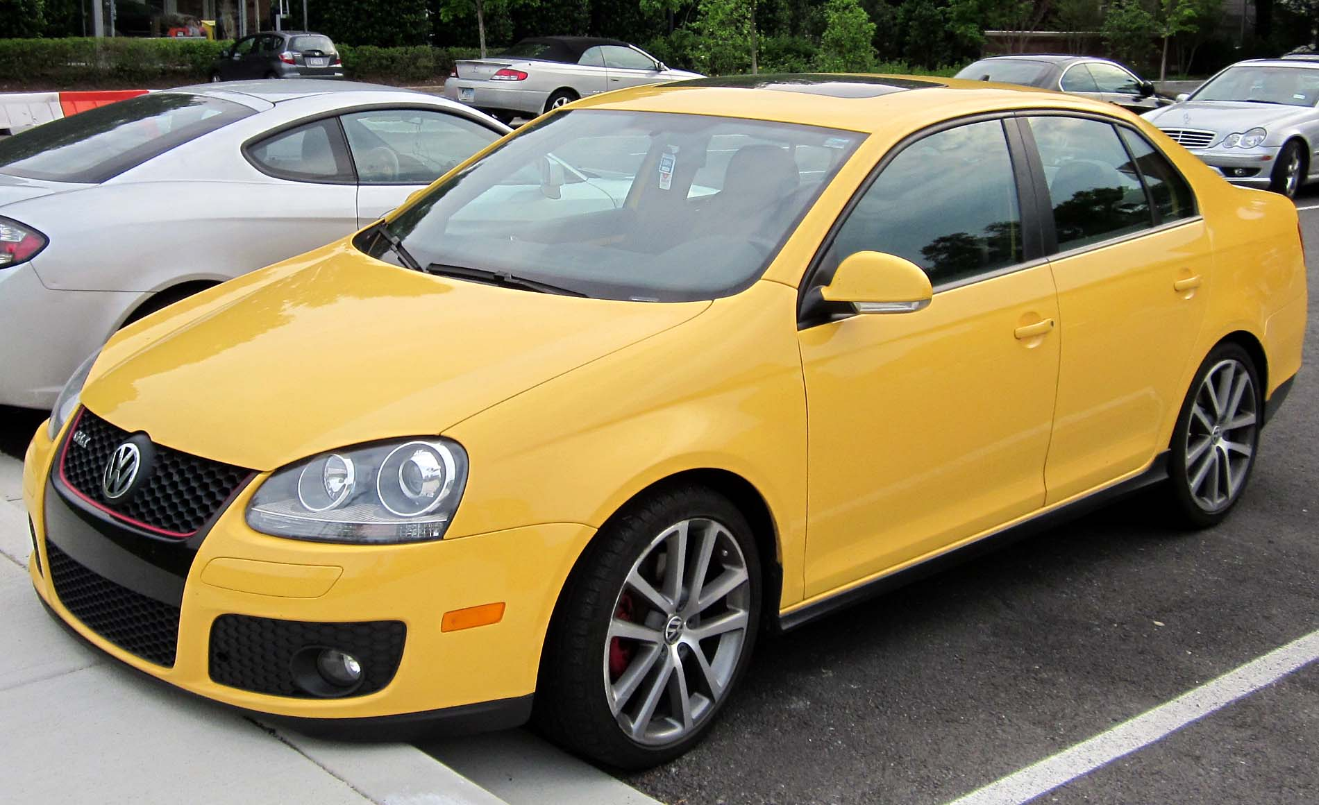 Volkswagen Jetta photographed in Washington, D.C., USA.